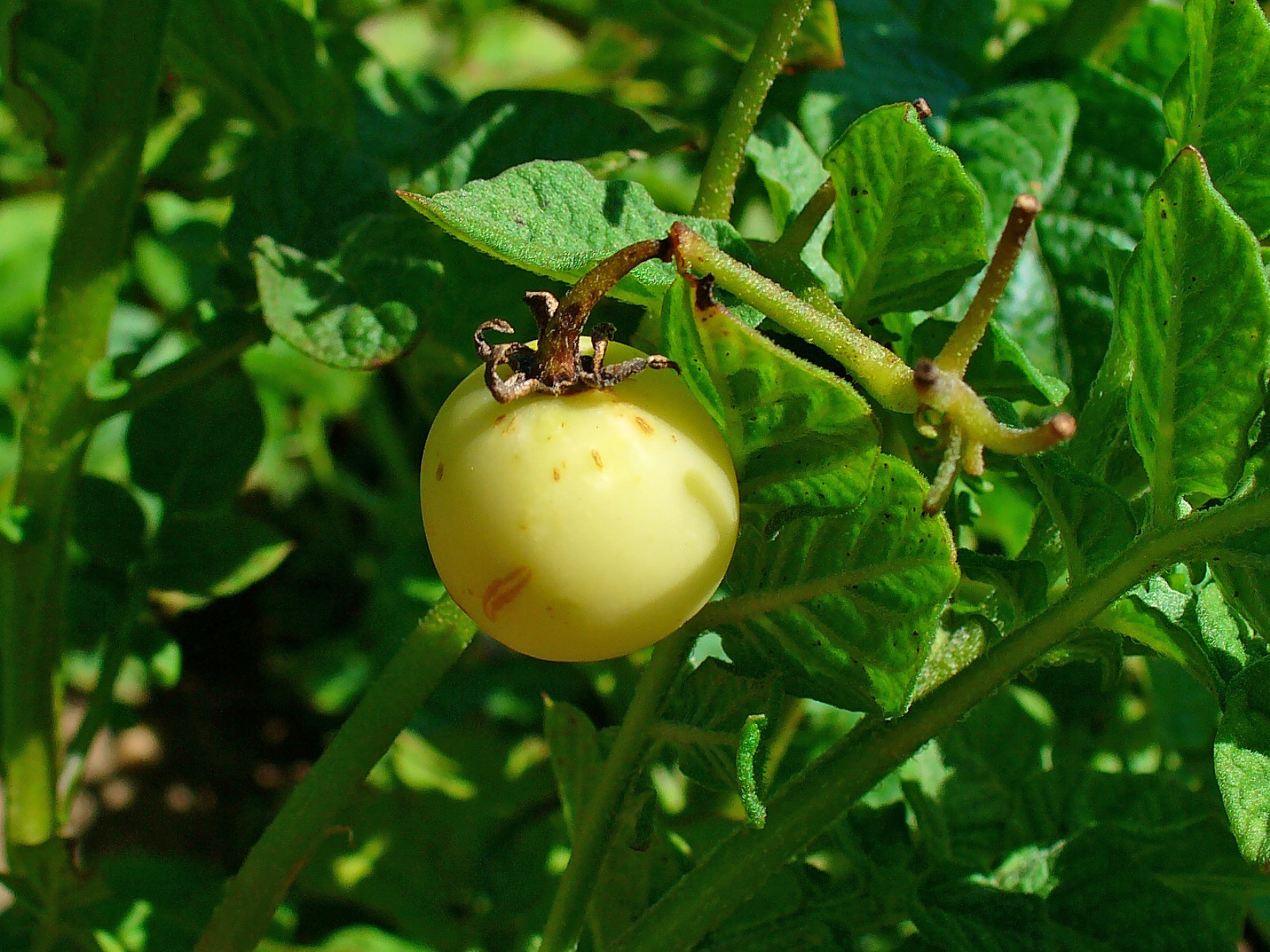 Solanum tuberosum, Solanaceae, Potato, fruit. Stutensee, Germany